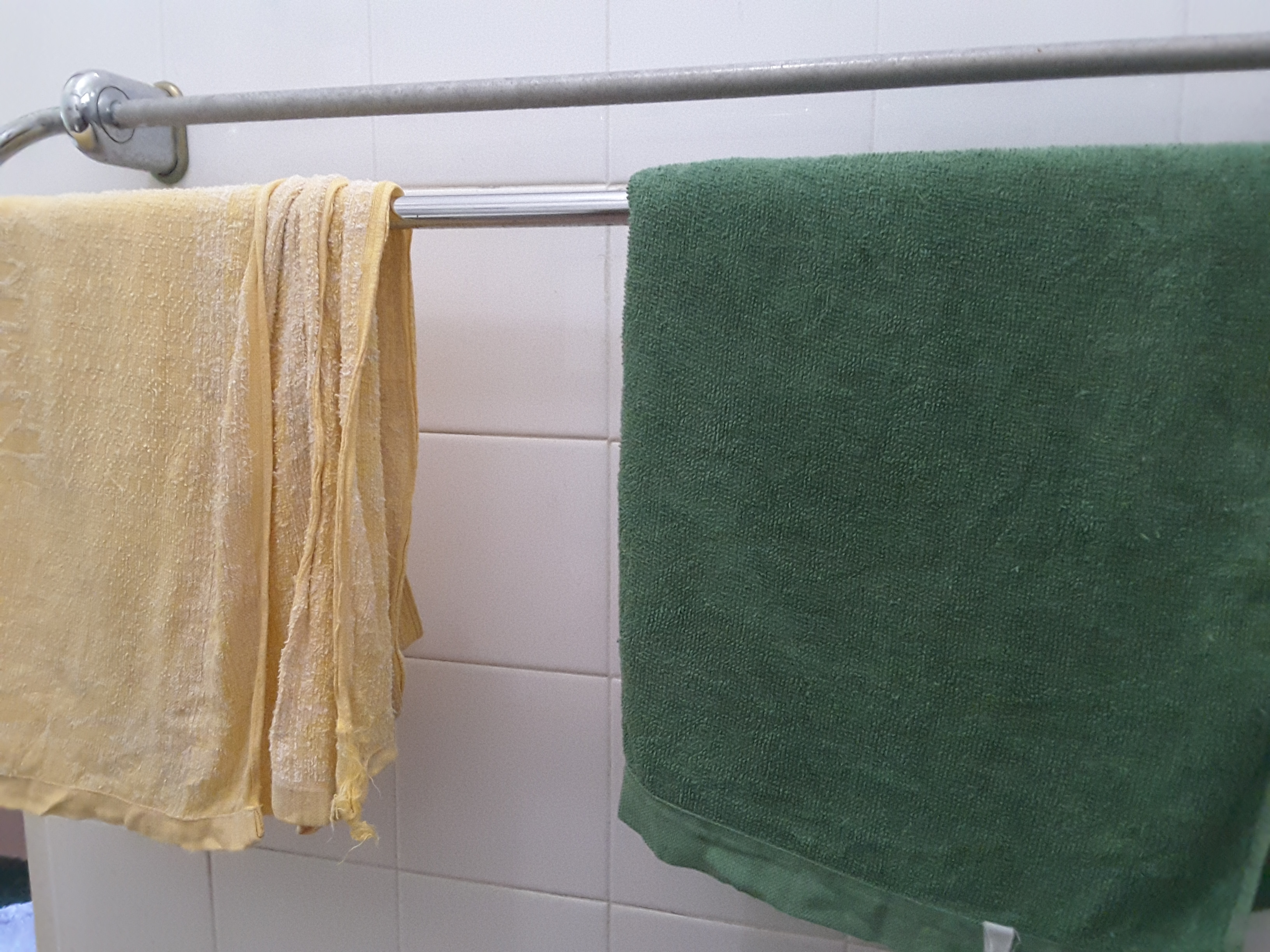 Bathroom towels 中文（新加坡）: 能够擦干身体的浴巾